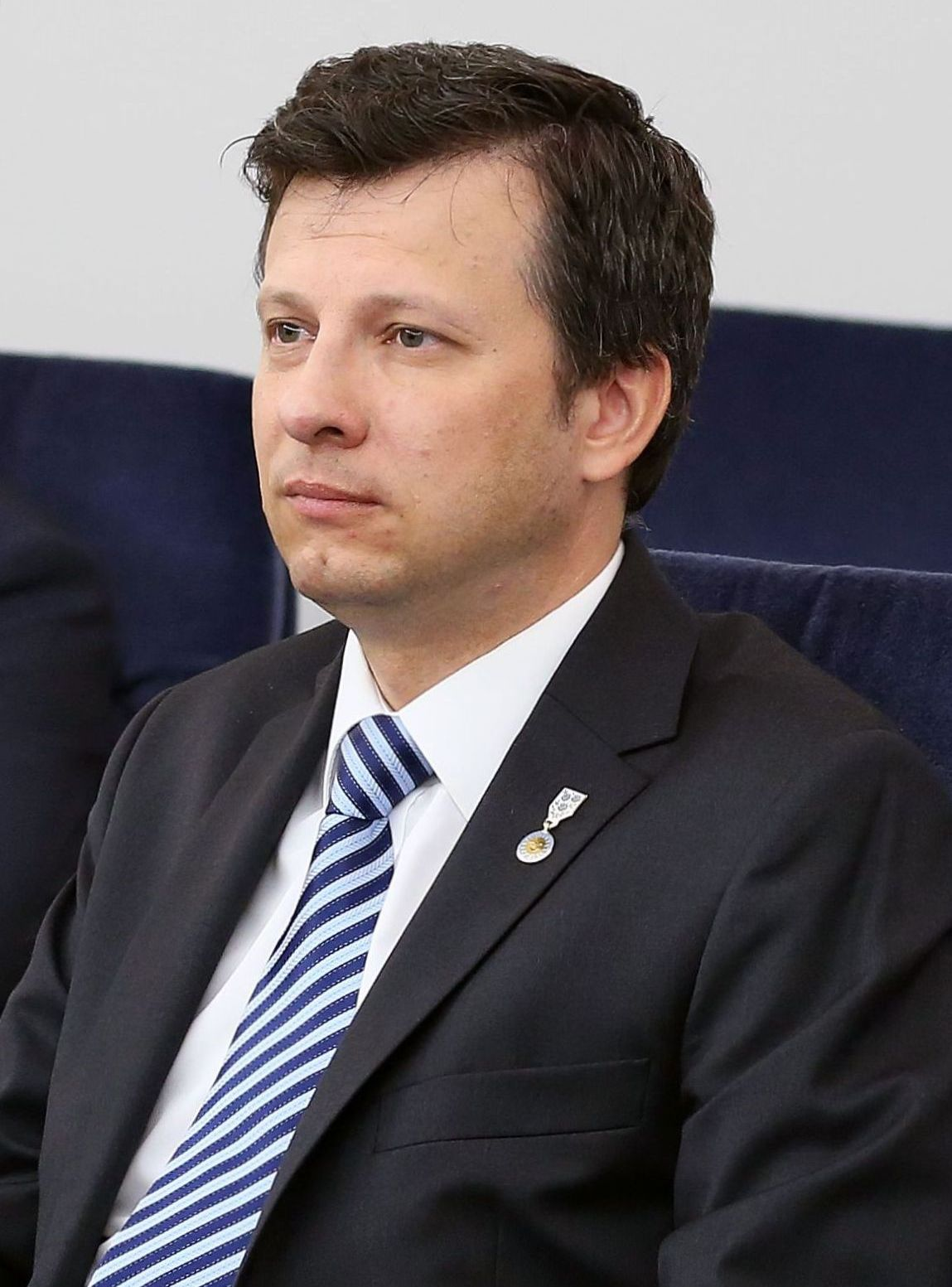 The Ombudsman for Children Marek Michalak. 60th sitting of the Polish Senate